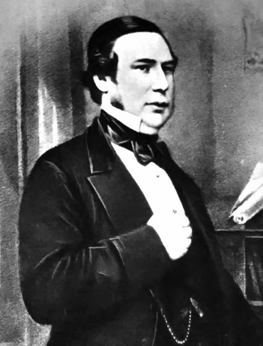 The image number and name is the image caption for the book, The Story of the House of Cassell (1922)